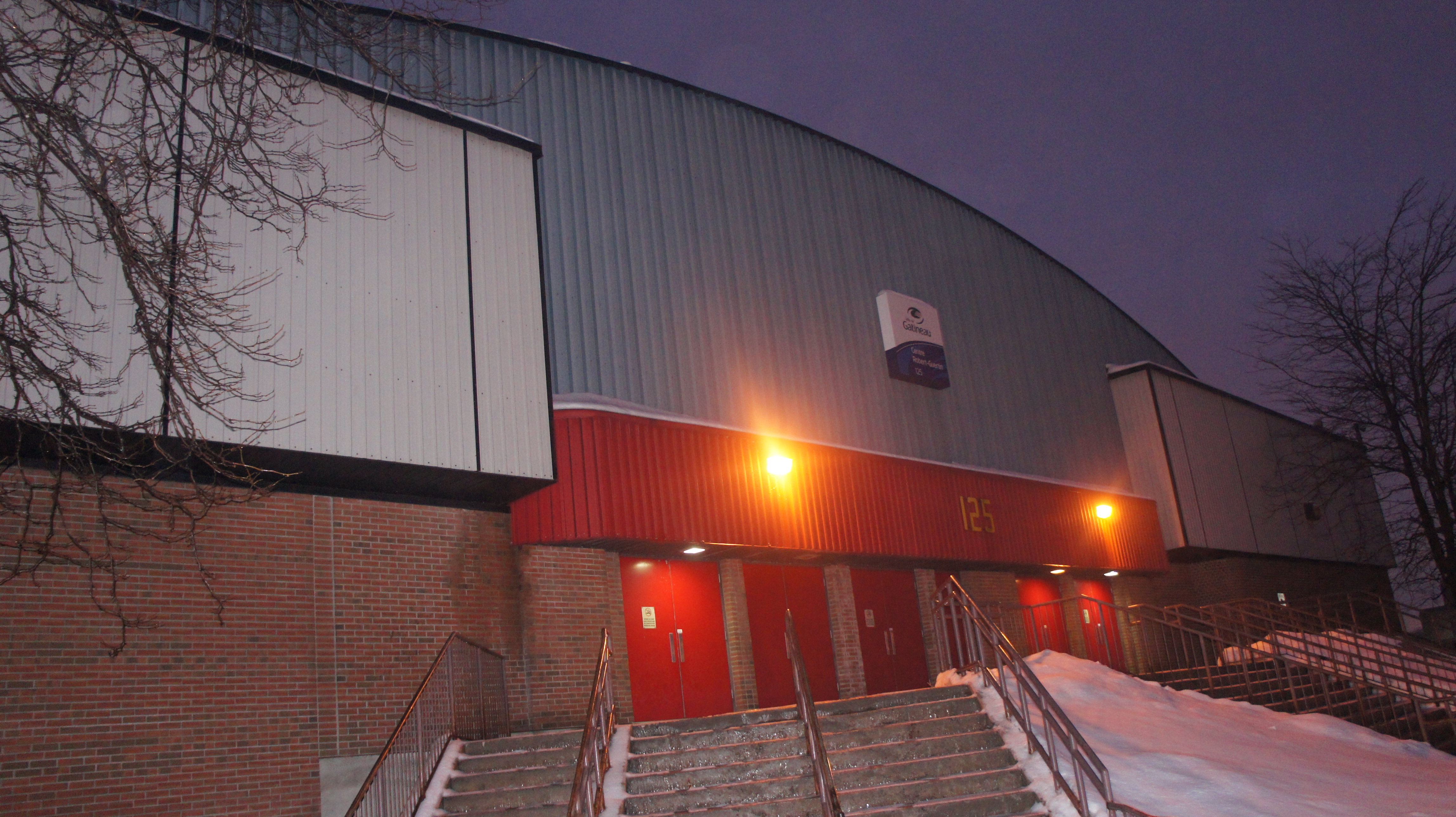 Robert Guertin Centre - Exterior